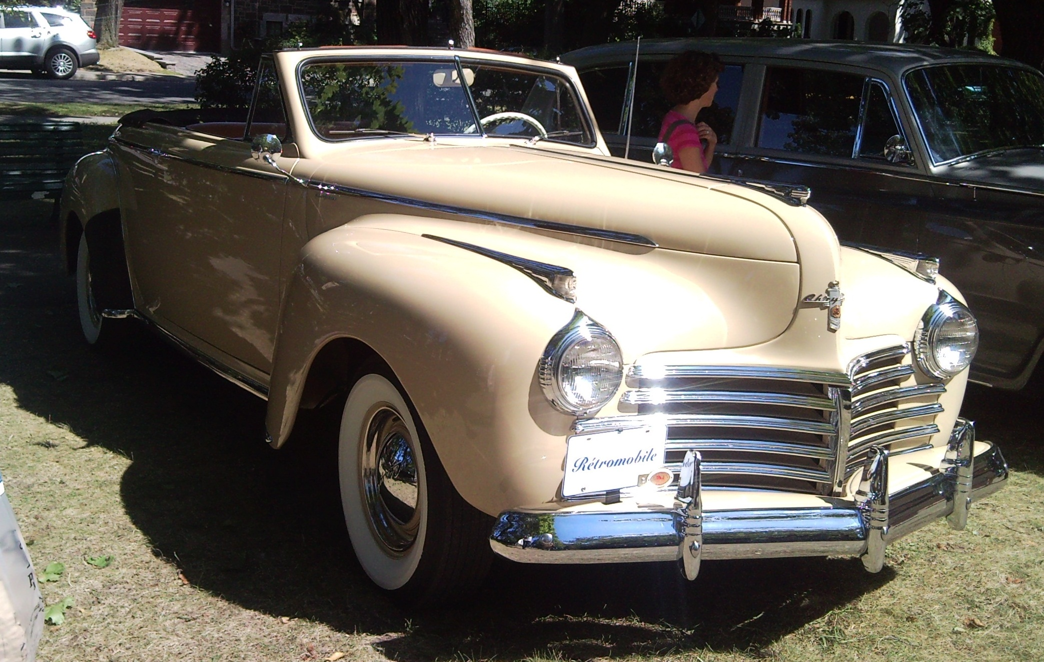 1941 Chrysler New Yorker (series 30) photographed in Montreal, Quebec, Canada at Déjeuner sur l'herbe VAQ 2012.